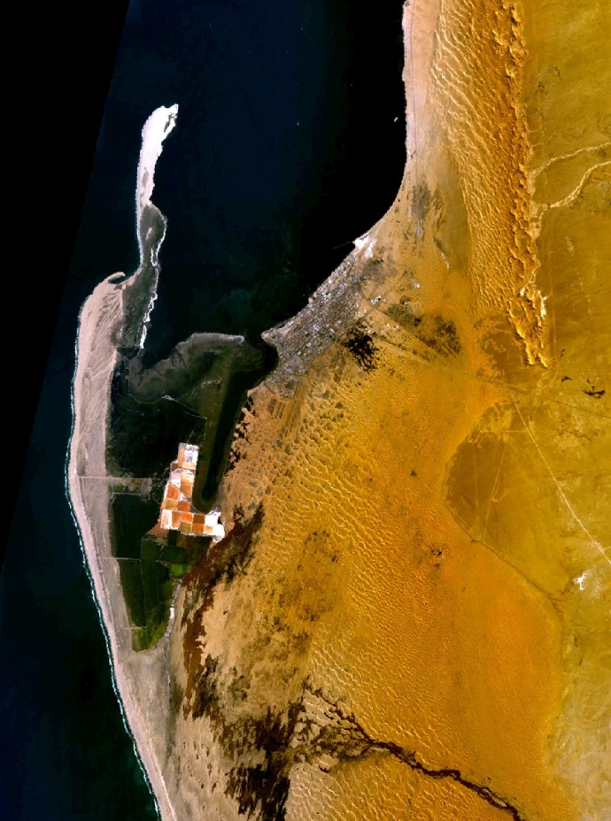 Walvish Bay, Namibia